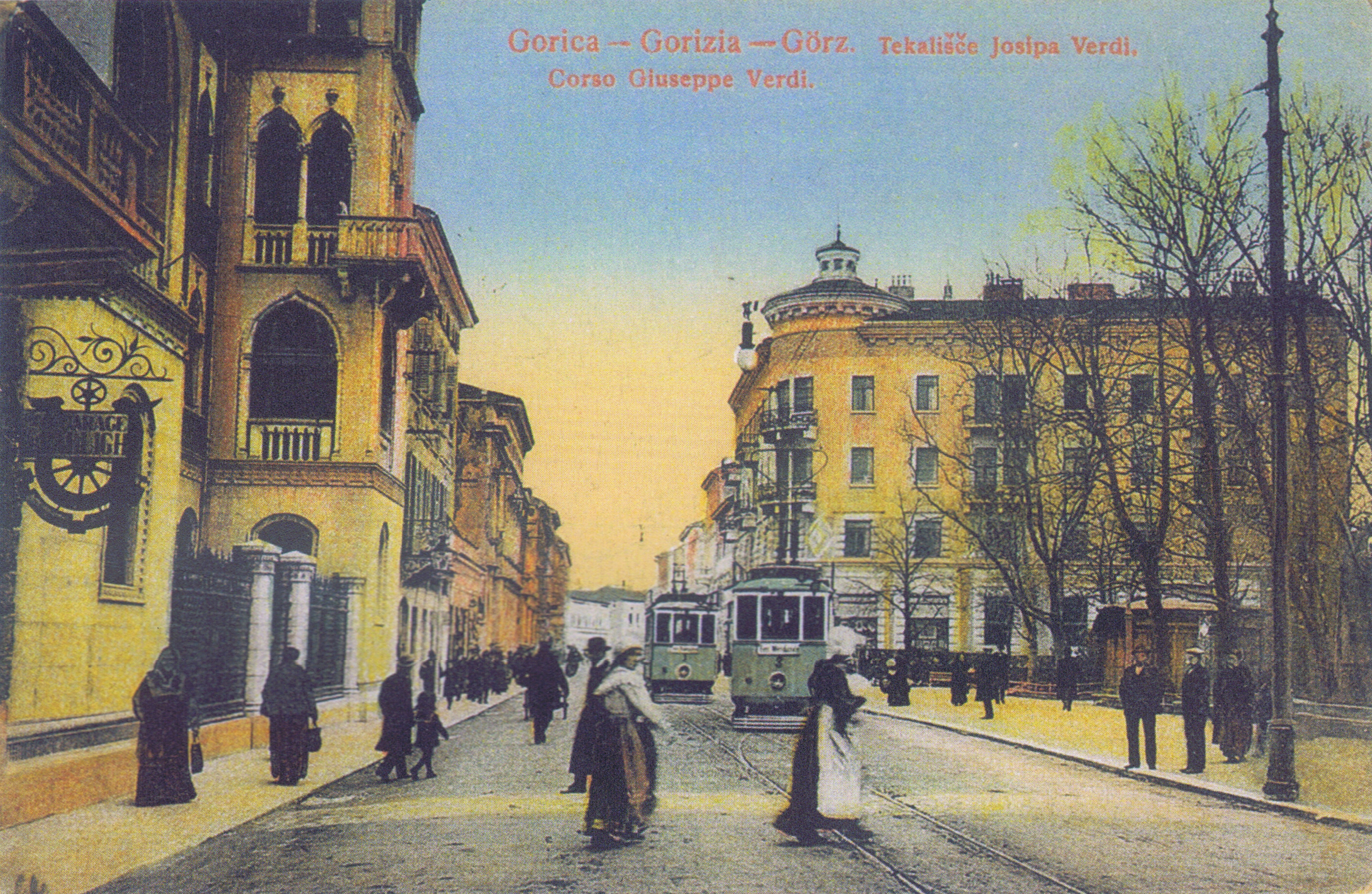 View of Gorizia in 1900, Italy